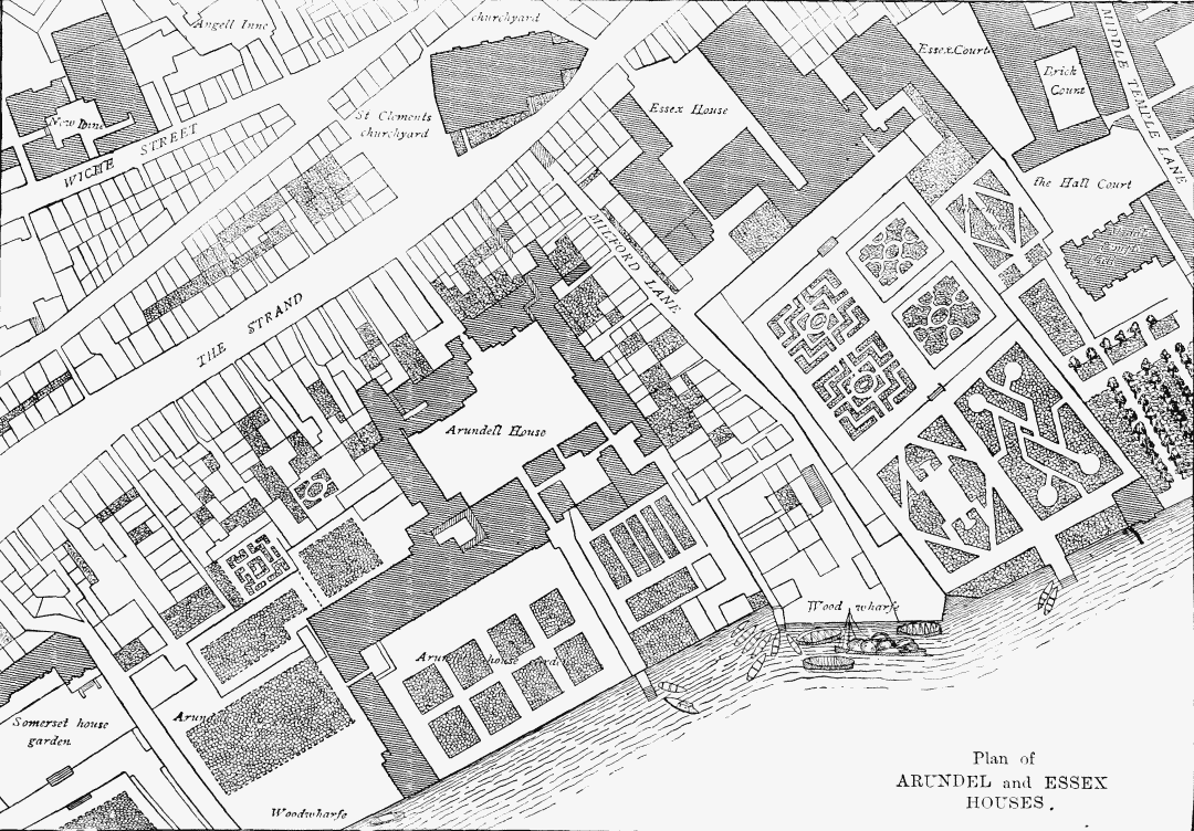 Plan of Arundel and Essex Houses from an original Etching by Hollar, published in Ogilby and Morgan's Twenty-Sheet Plan of London.